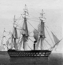 The English & French fleets in the Baltic, 1854. (Plate No.5). The fleets becalmed. Screw ships getting steam up, including HMS Majestic (ship, 1853), taken from an image which also (shows H.M.S. Princess Royal and Blenheim)